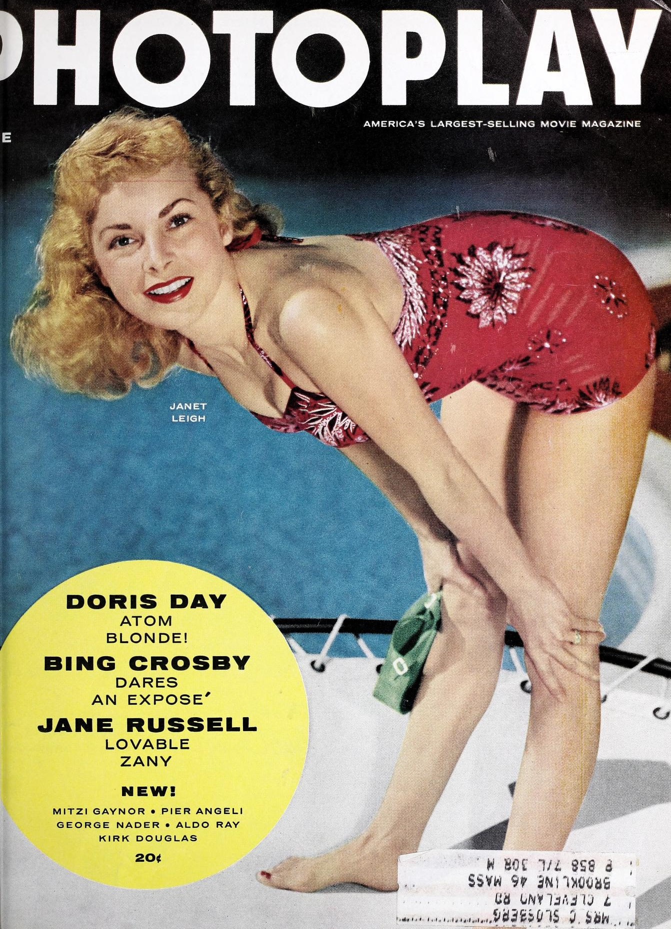 Janet Leigh by Don Ornitz, June 1955. Swimsuit by Rose Marie Reid, swimcap by Playtex.